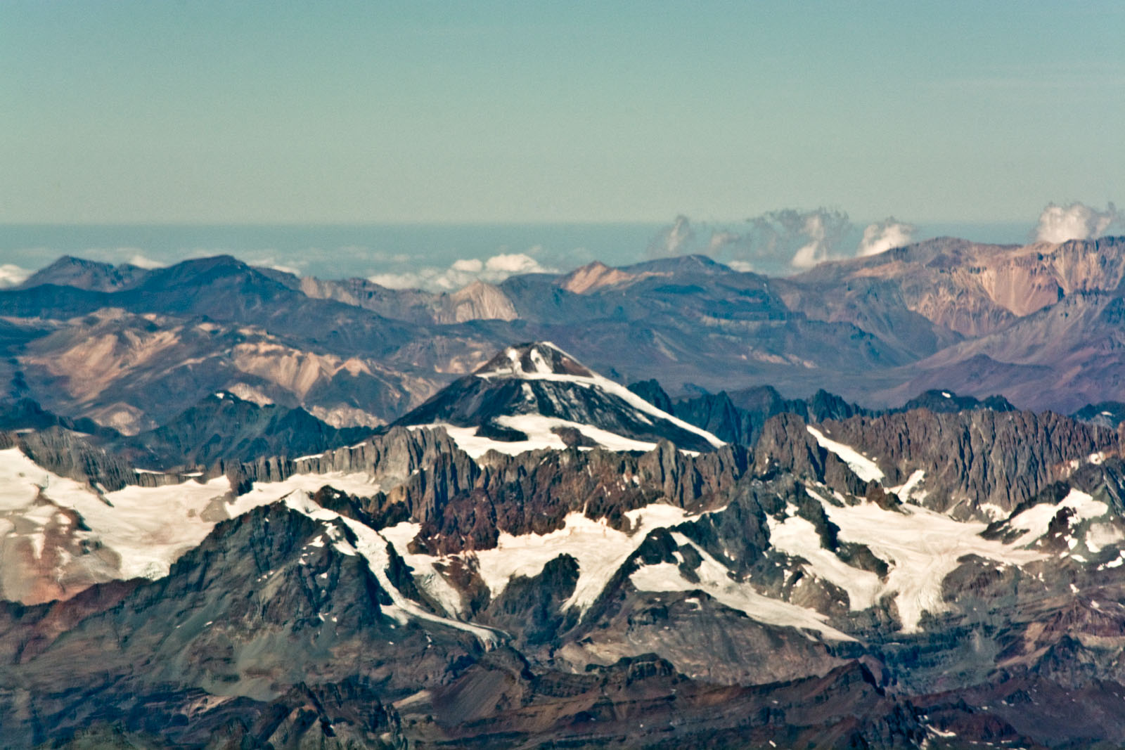 Aerial photograph of the El Palomo stratovolcano. Metropolitan Region - Chile. Elevation: 4.860.m